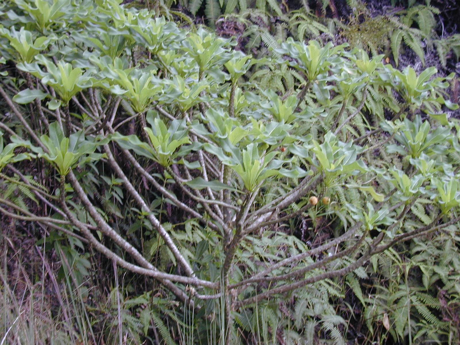 Clermontia kakeana (habit with fruit). Location: Maui, Waihee Ridge Trail